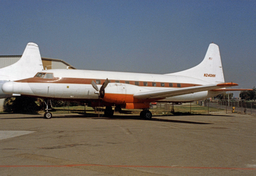 Convair 240 N240HH of Texas Instruments at Chino airfield California in 1990